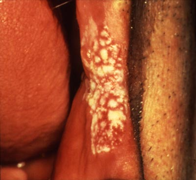 Eritroleucoplasia